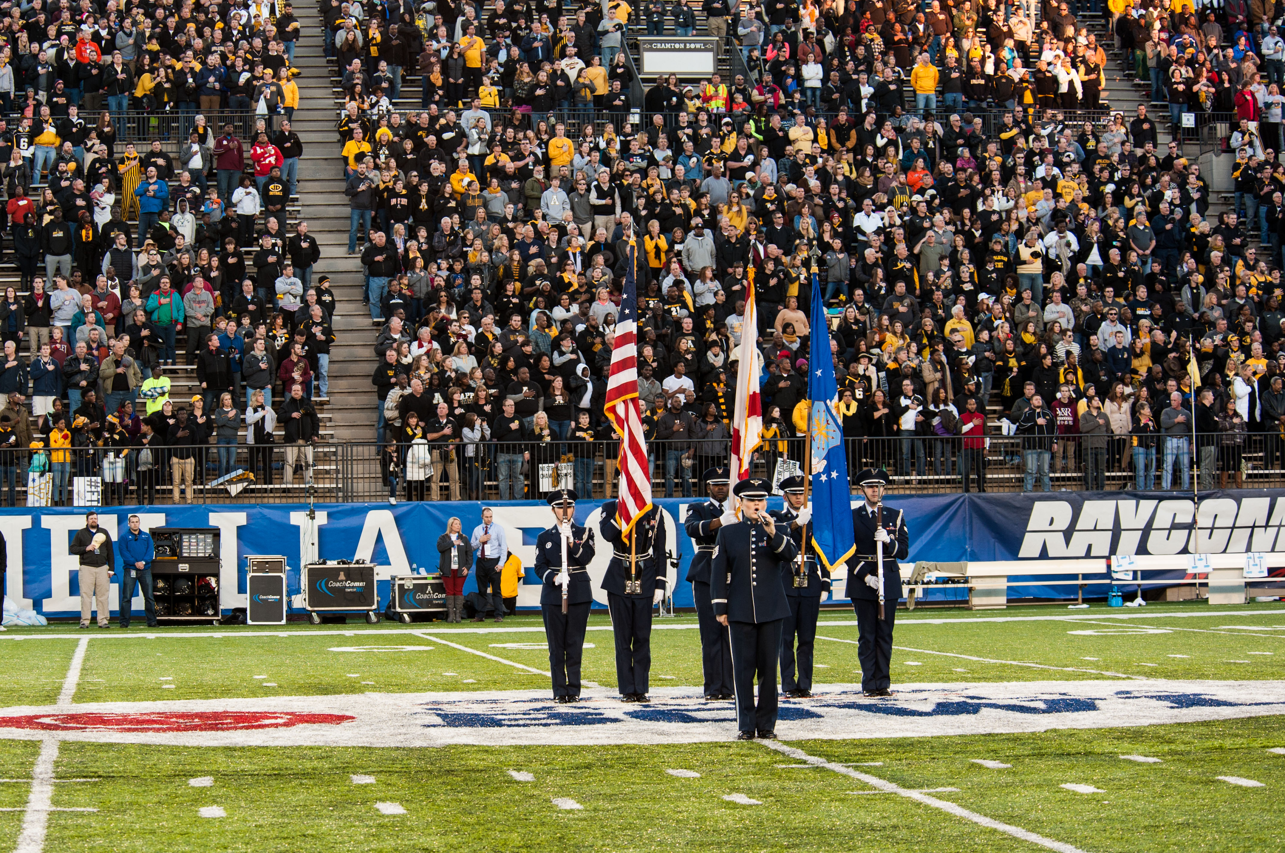 Maxwell AFB, Ala. - The 2015 Raycom Media Camellia Bowl was held at Cramton Bowl in Montgomery Al on Dec 19, 2015. U. S. Air Force participants posted the colors, sang the National Anthem and provided a corridor of Airmen for the teams to enter the playing field. TSgt Paige Wroble, USAF Bans, Airmen of Note, Washington D.C sings the National Anthem with a color guard from Maxwell AFB behind her. (US Air Force photo by Bud Hancock)